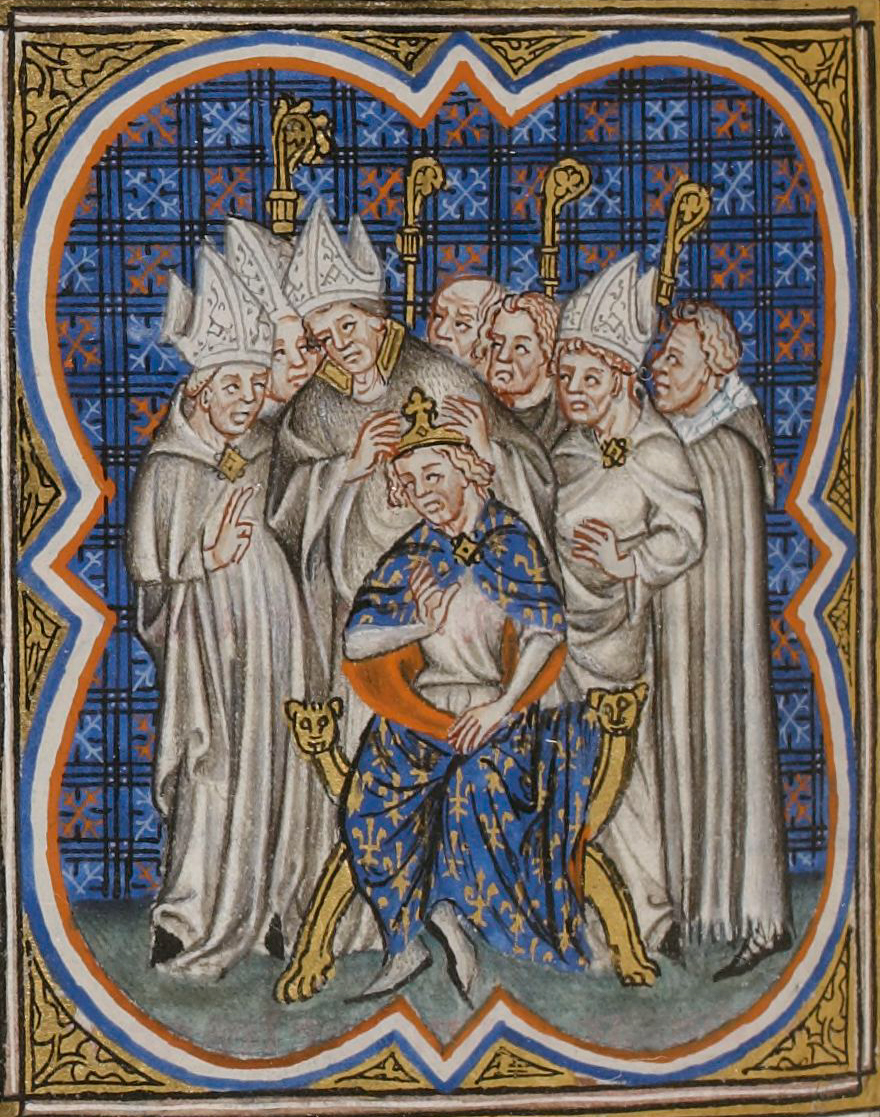 Coronation of Philip V of France. (Bibliothèque nationale de France)